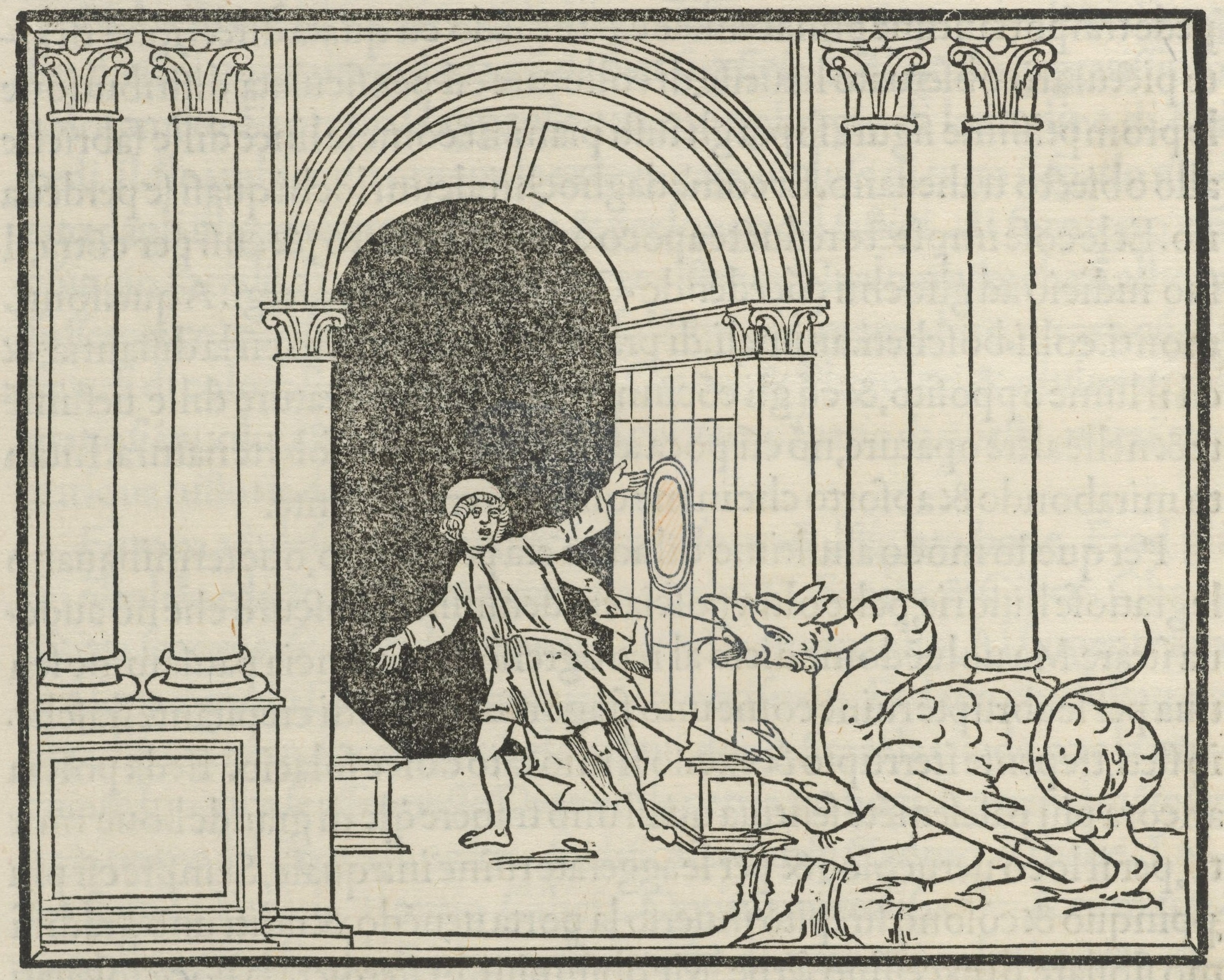 Illustration from Hypnerotomachia Poliphili, Venice: 1499, by Francesco Colonna. WKR 3.5.4, Houghton Library, Harvard University